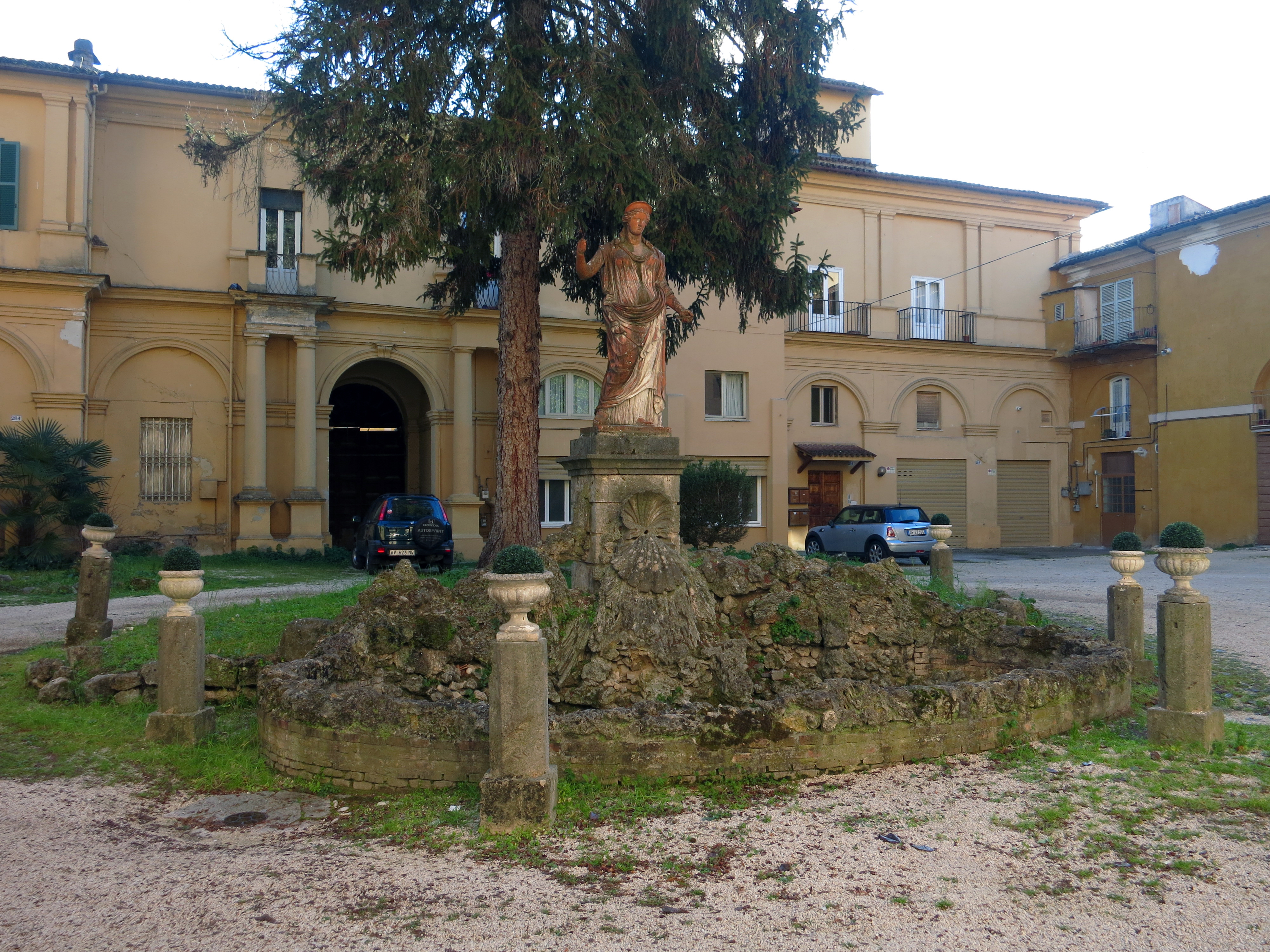 Palazzo Vincenti Mareri - Rieti, Lazio, Italy